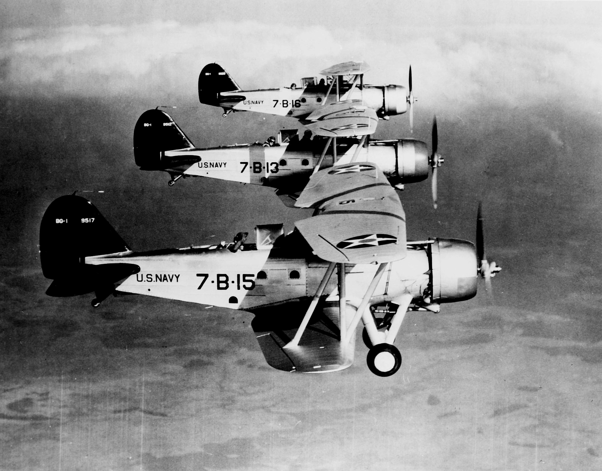 A formation of three U.S. Navy Great Lakes BG-1 aircraft of bombing squadron VB-7 in flight near New York City. Pilot of 7-B-13 is LT Robert Beebe; of 7-B-15 ENS George A. Savage; of 7-B-16 ENS R. A. Parker.